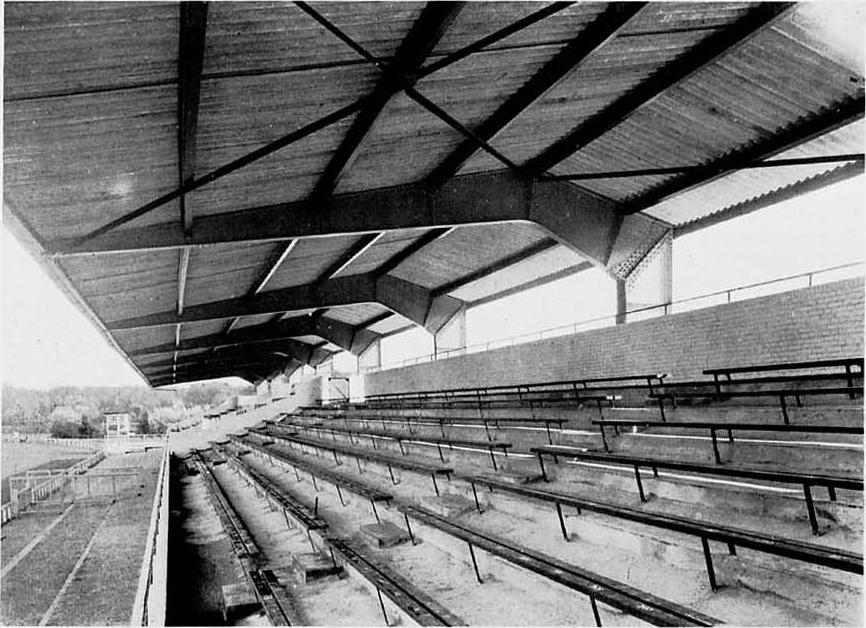 Grandstand in the Gemeentelijk Sportpark, Alkmaar. 1929-1930.